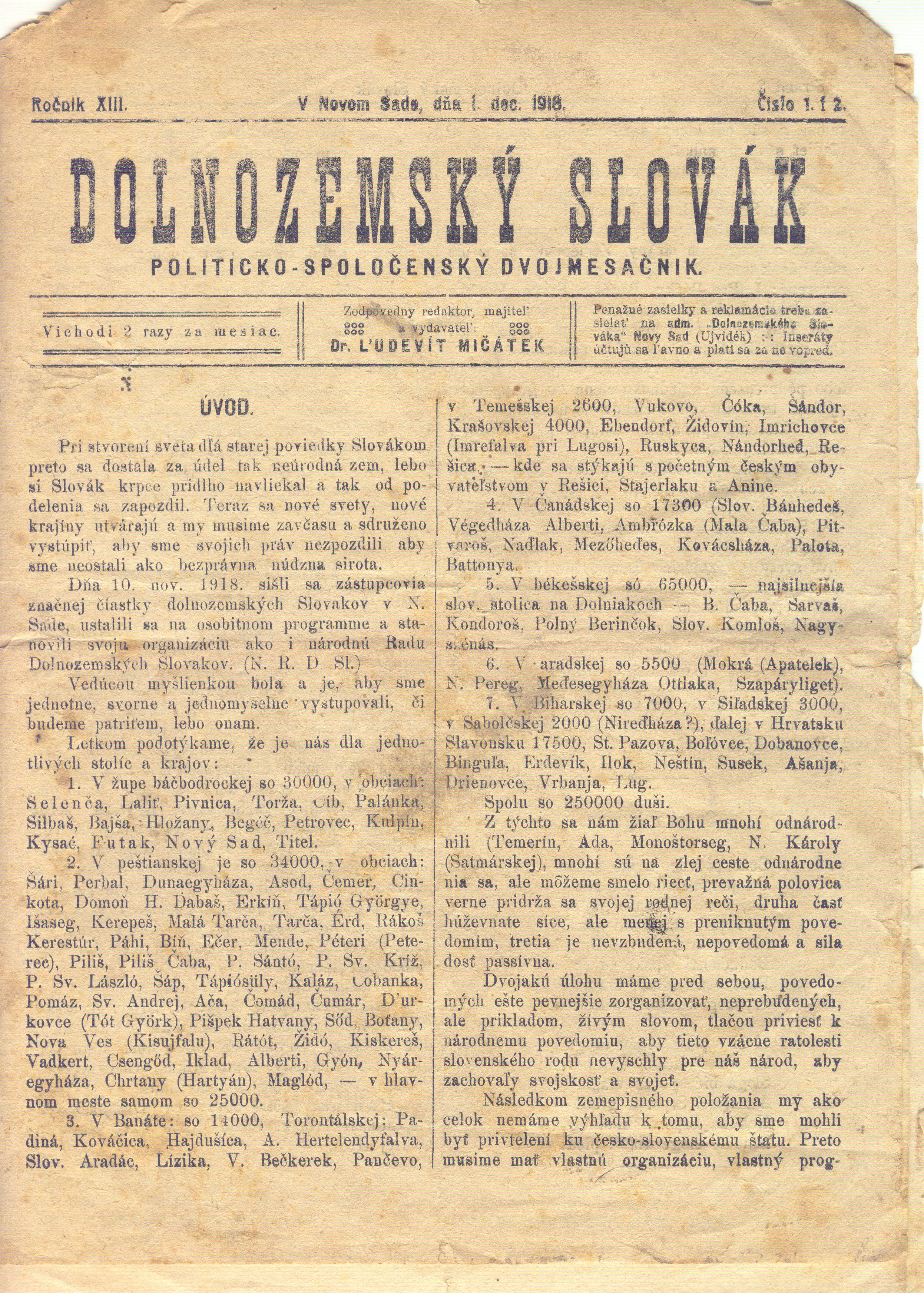 Front page of Vojvodinian Slovak newspaper Dolnozemský Slovák. Inventory number 896. Srpski (latinica): Naslovna strana lista Dolnozemski Slovak. Inventarski broj 896.